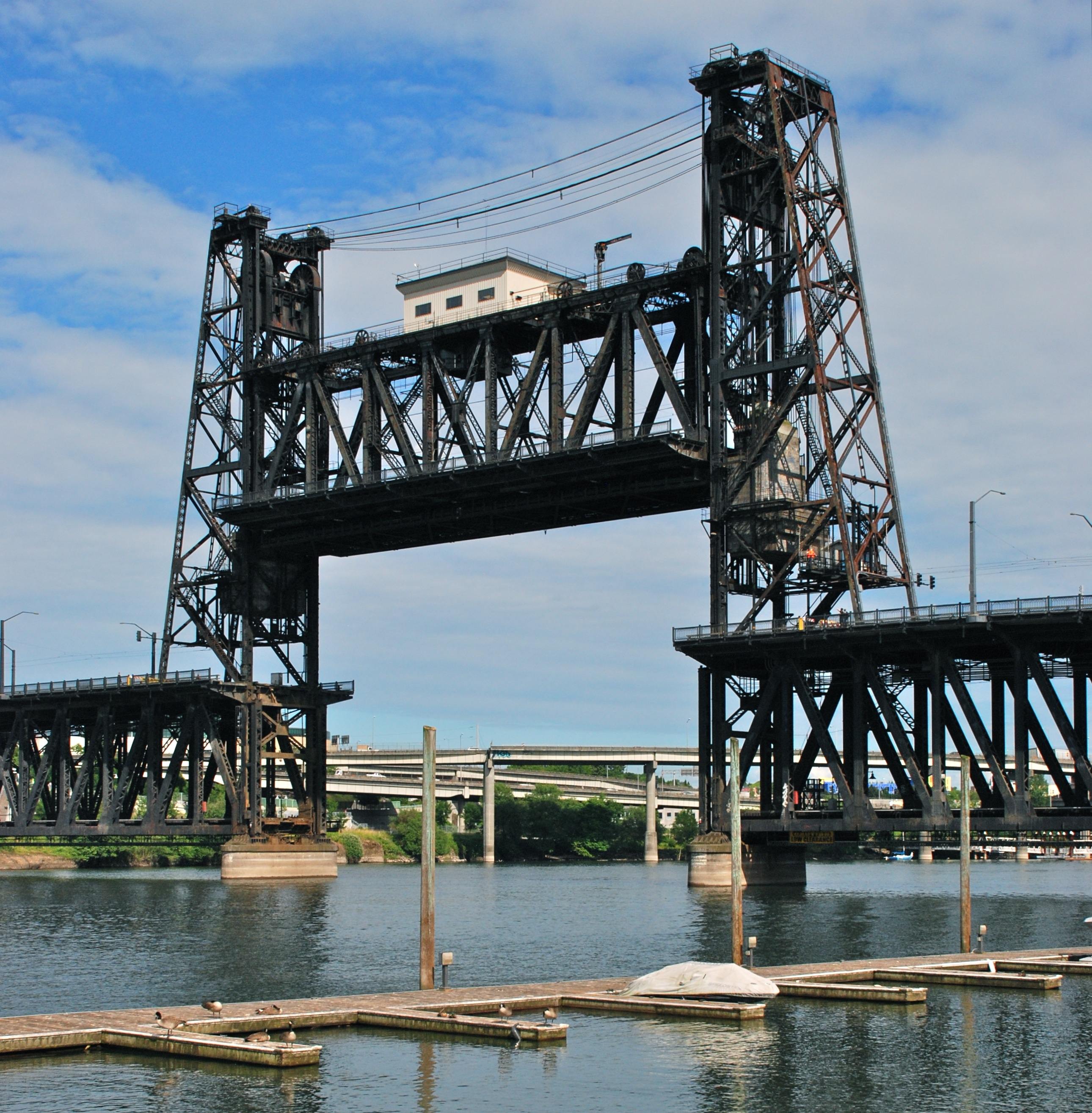 The raised vertical-lift span of the 1912-built Steel Bridge, in Portland, Oregon, viewed from the west bank of the Willamette River, on the northwest side of the bridge (looking east-southeast). In this photo, the lower deck has been telescoped into the upper deck, and the combined decks have been raised about 80% of the maximum height to which they can be raised above the upper deck. In the foreground, a few Canadian Geese are resting on a private boat dock. The viaducts in the background are part of the interchange between Interstate-5 and Interstate-84.